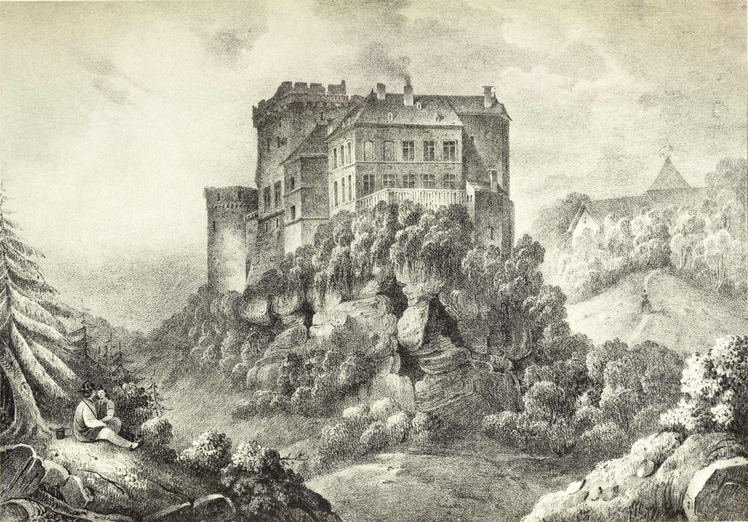 Vue on the castle of Hollenfels, Luxembourg. Drawing.